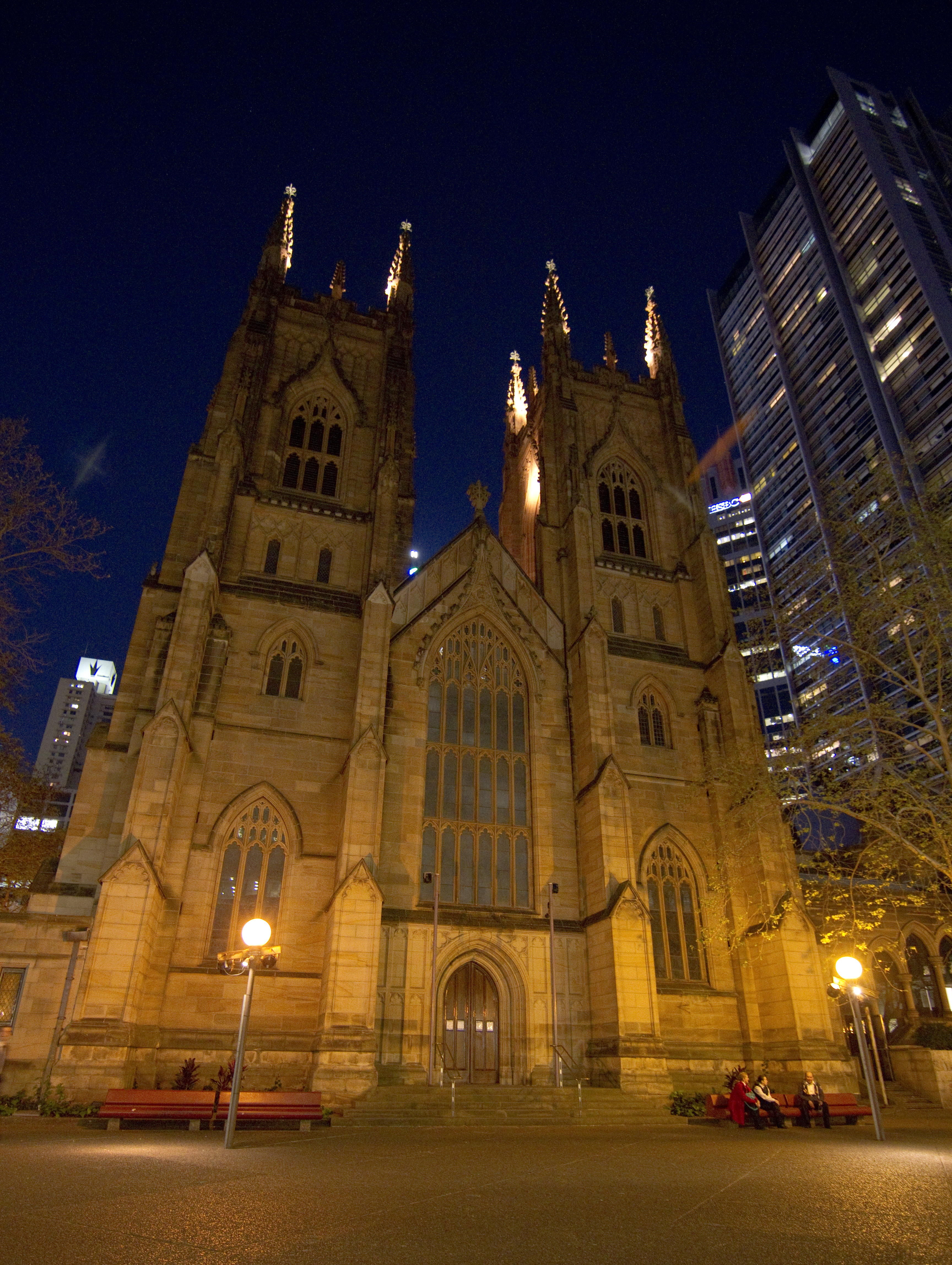 St Andrew's Cathedral, Sydney CBD